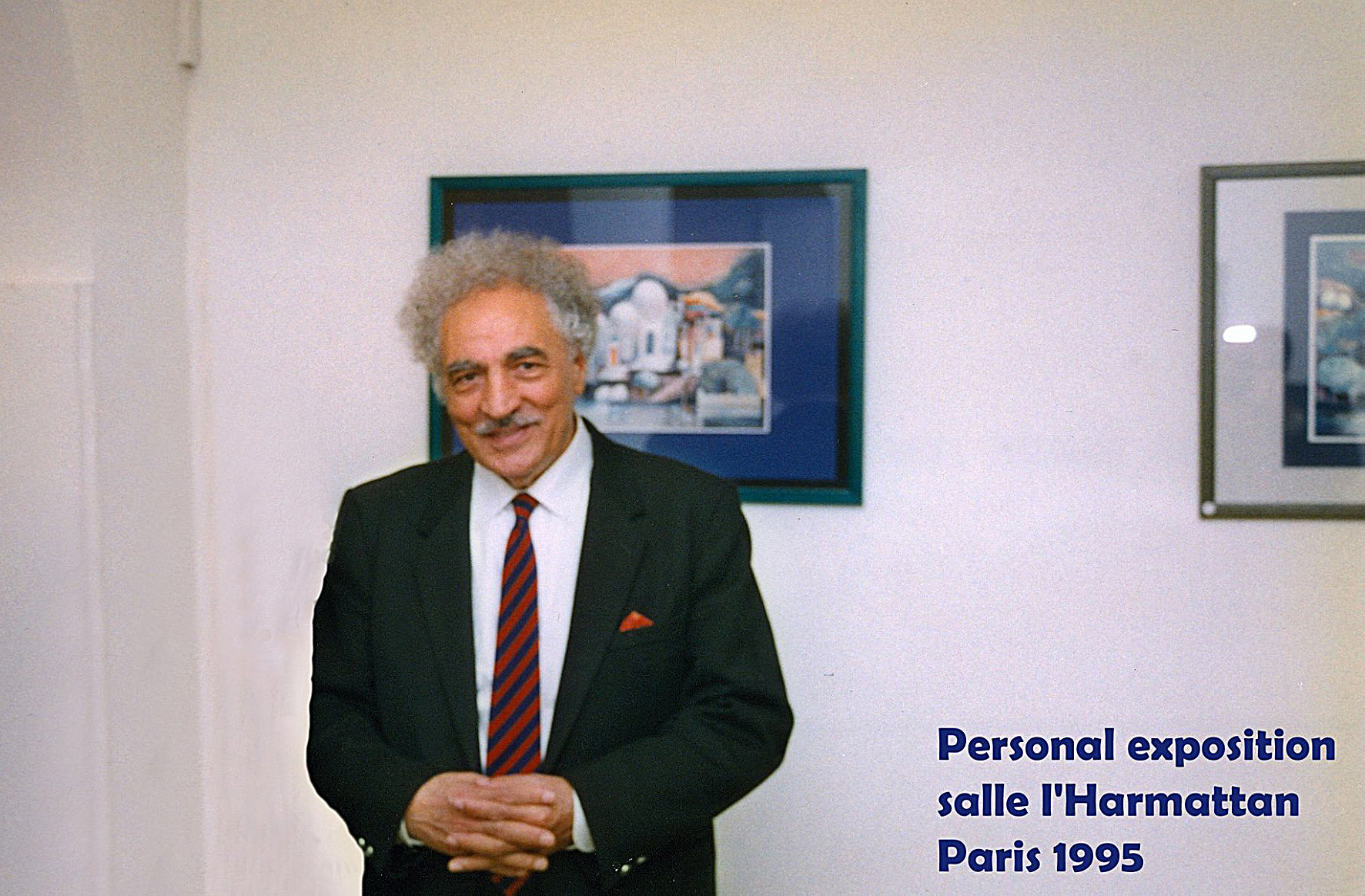 Noori Al Rawi during the inauguration of his personal exhibition at Harmattan Hall in Paris in 1995